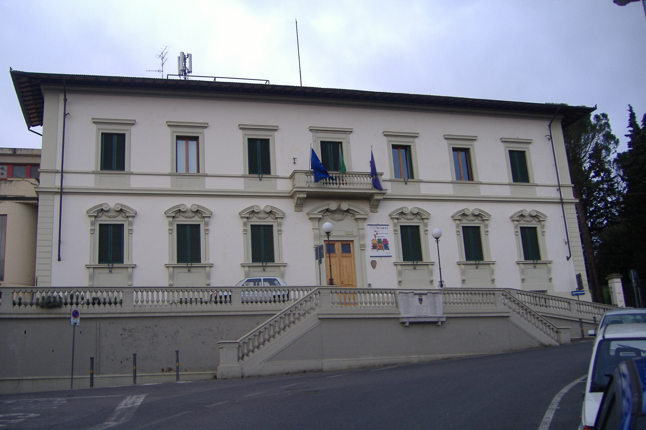 Bagno a Ripoli (province of Florence, Italy), Town-hall